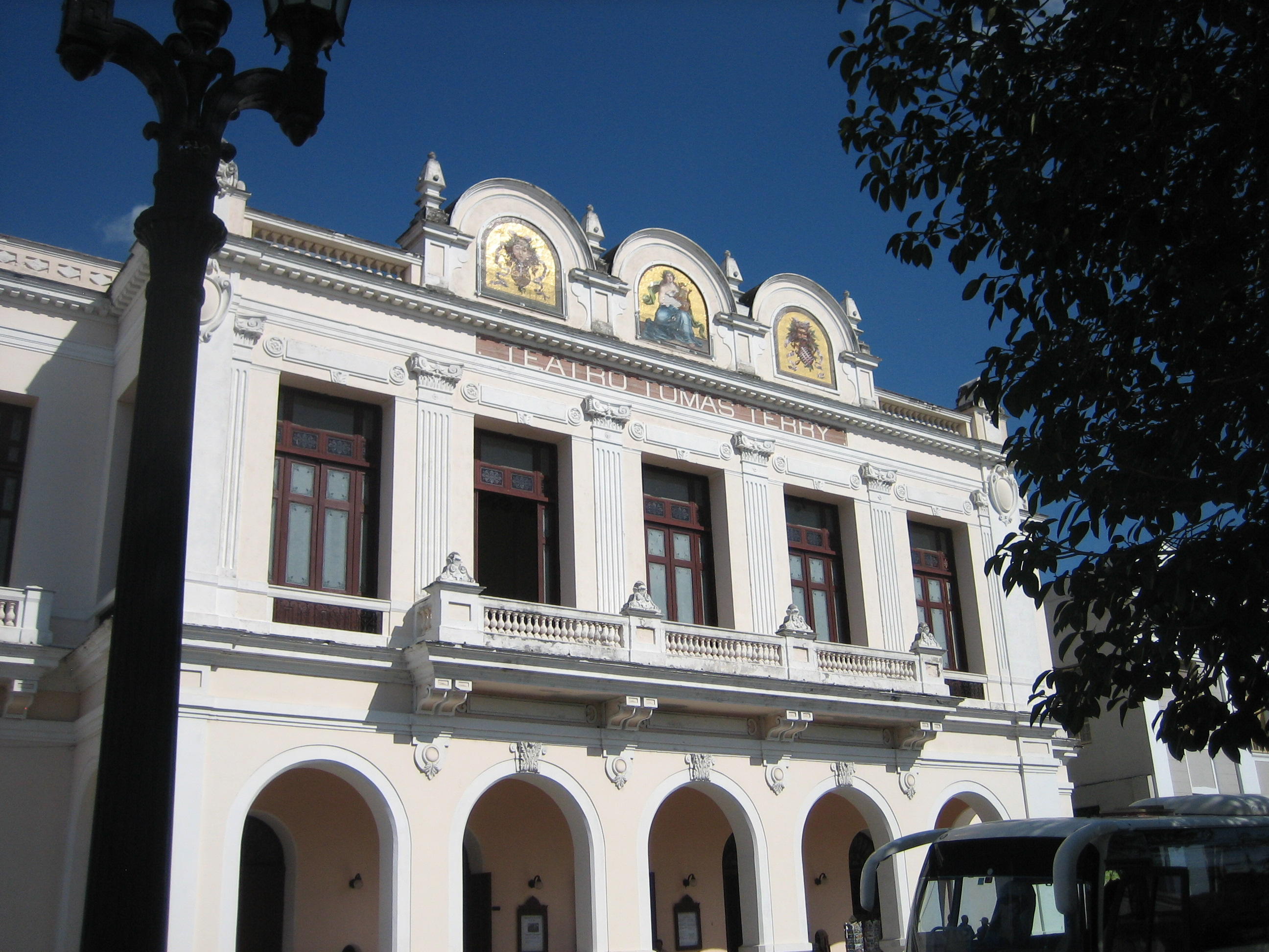 Teatro Tomas Terry, Cienfuegos, Cuba.